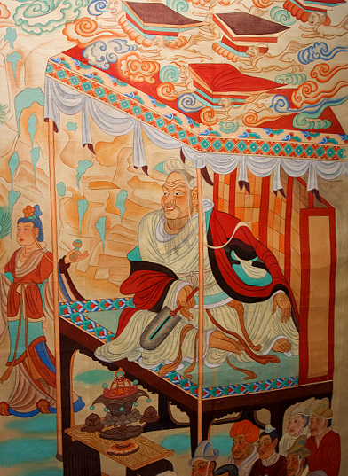 Vimalakirti Bodhisattva debates Manjusri Bodhisattva. Scene from the Vimalakirti Nirdesa Sutra. Dunhuang, Mogao Caves, China, Tang Dynasty.